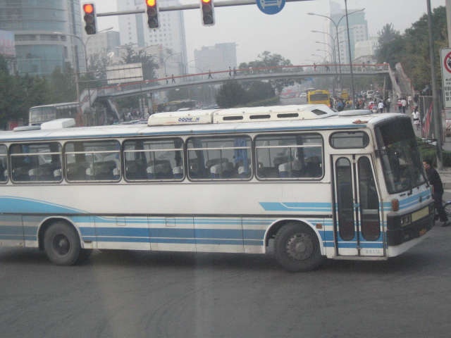 The Huanghai DD6112H2A serving as a commuter bus of Peking University School of Stomatology, in Weigongcun.